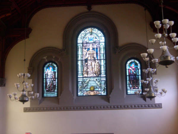 Summary by original uploader : Stained Glass painting inside University College. Artist is unknown to me. But it's very lovely and has a gothic atmosphere. It's located in the Eastern wing. The picture is taken by me. YA.